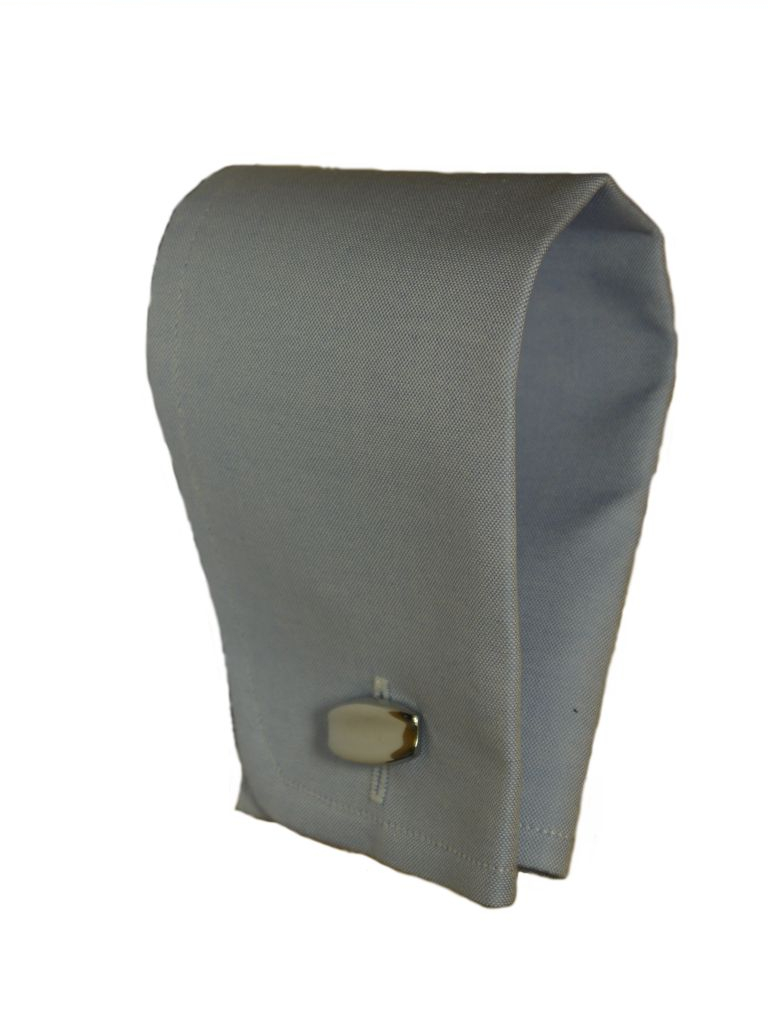 Classic French cuff for a dress shirt